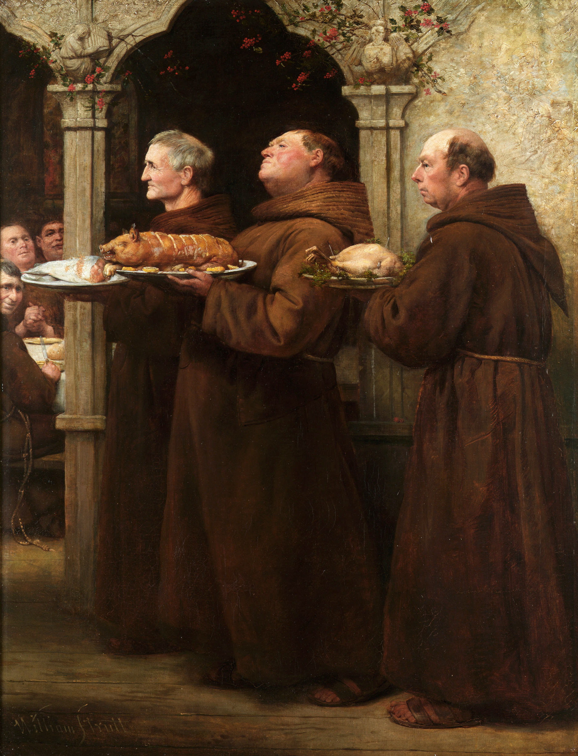 The Prior's Feast. Signed William Strutt. Oil on canvas, 104 x 80 cm